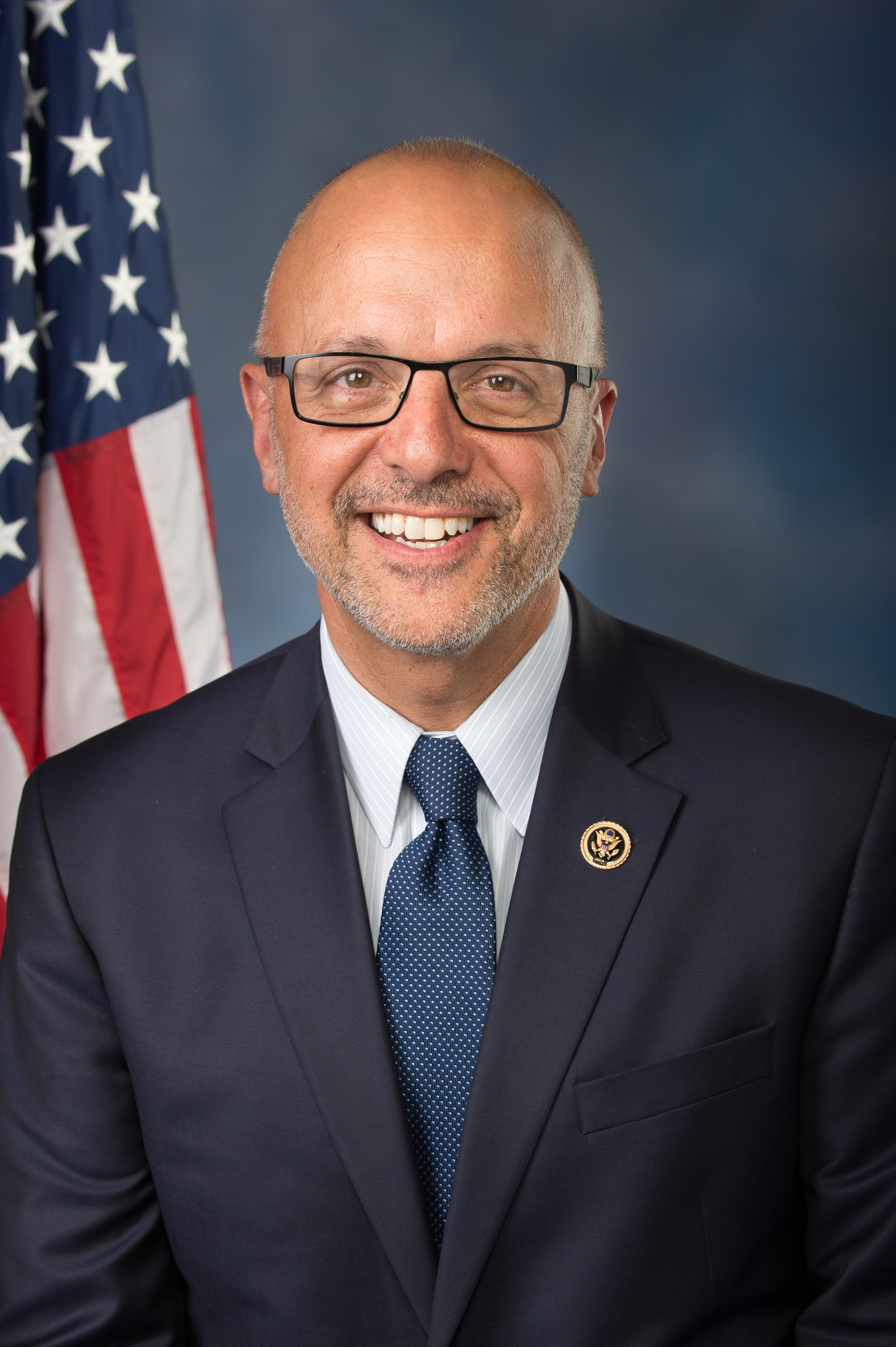 Ted Deutsch, member of the United States House of Representatives